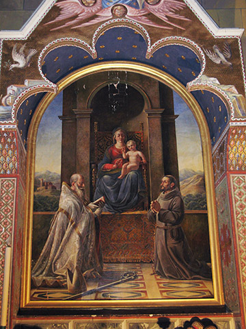 Photo of the altar and altarpiece of the church of San Martino at Montalto castle in Tuscany.